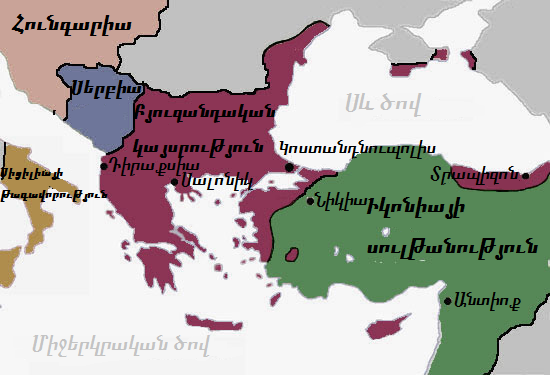 Byzantine empire before the Crusades